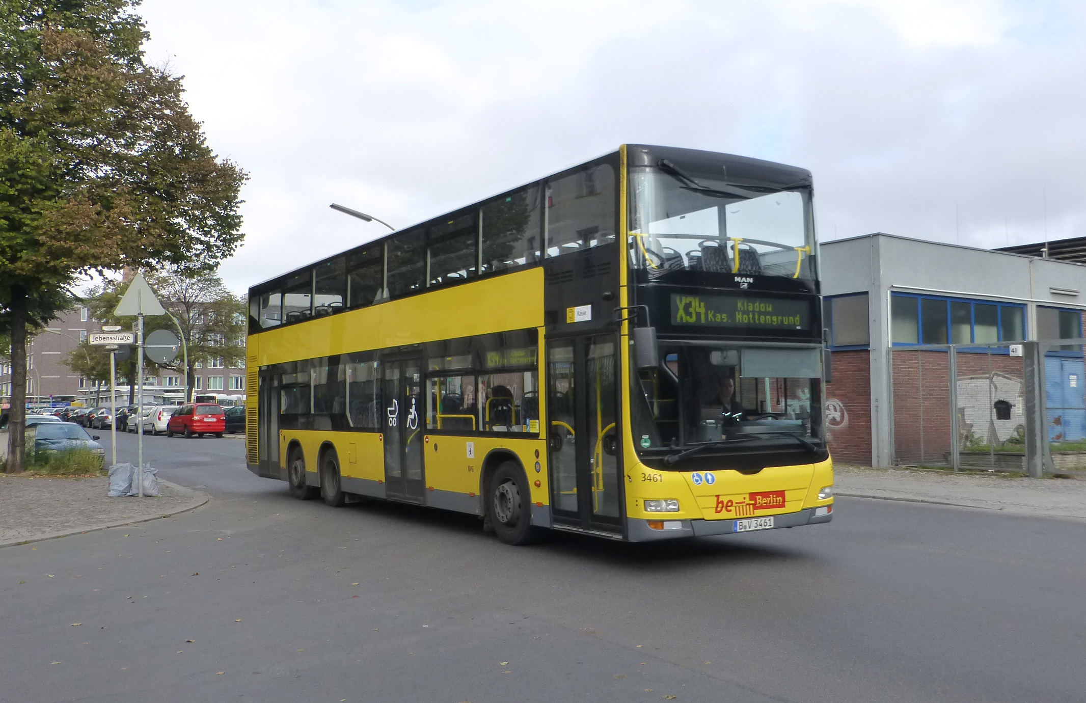 BVG bus linie X34 at the bus depot at Hertzallee behind Bahnhof Berlin Zoologischer Garten.